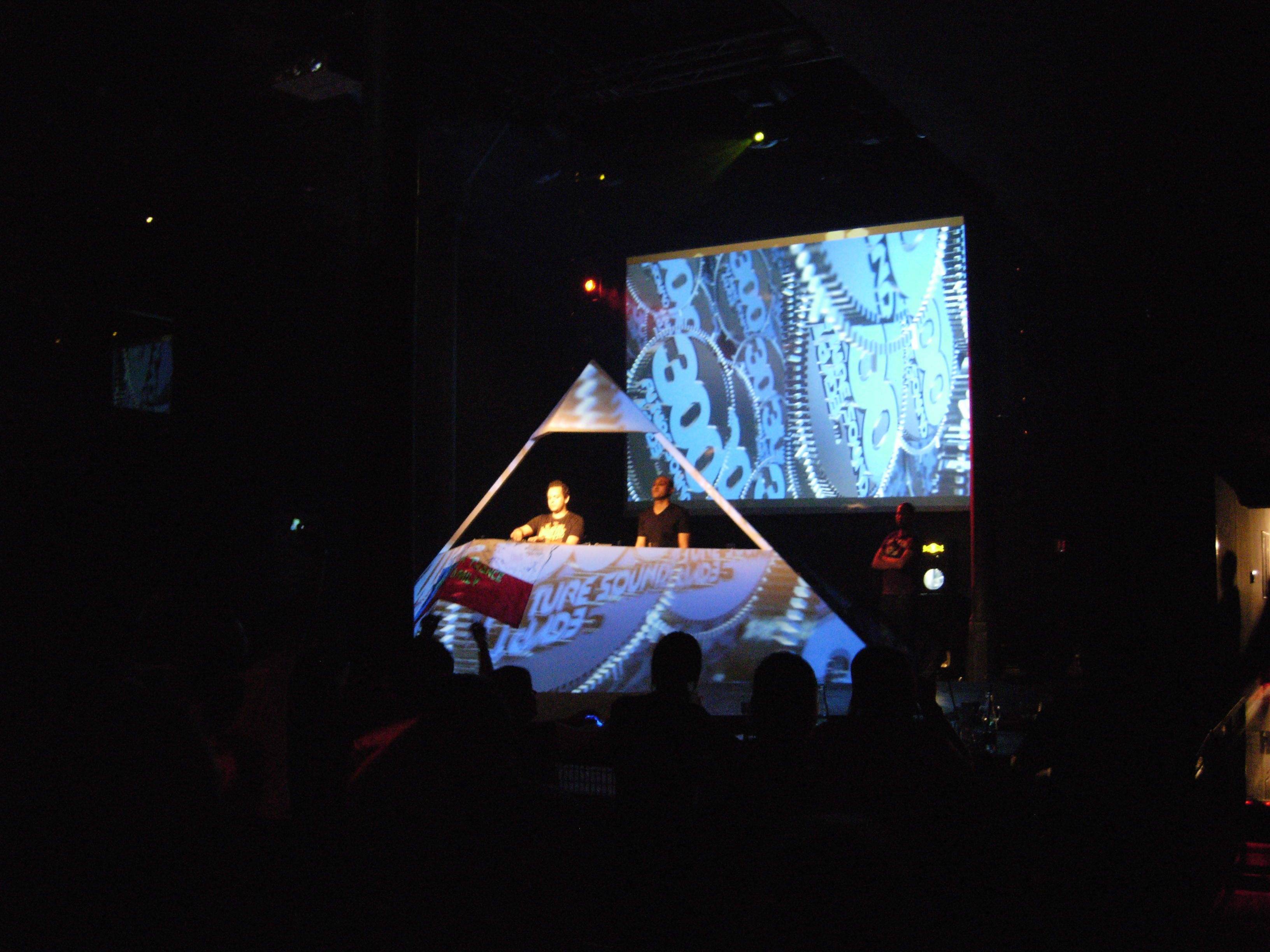 Future Sound of Egypt 300 anniversary show in Prague club SaSaZu. Egyptian DJs Fady & Mina are playing.